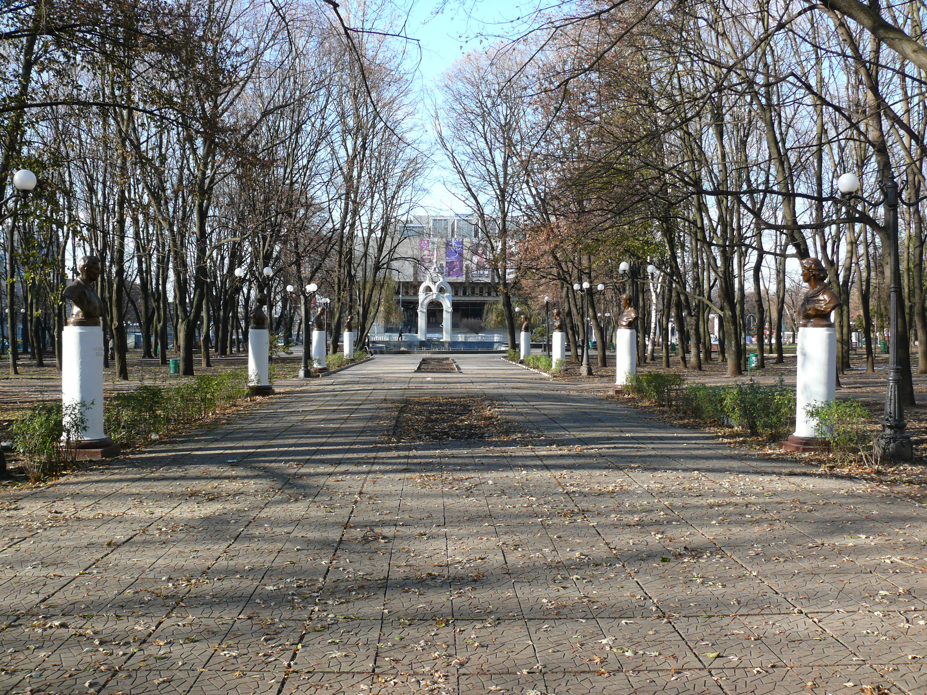 Victory Square in Kharkiv